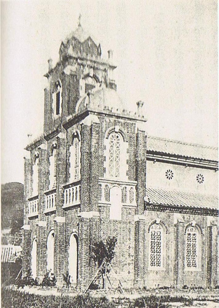 Amami Catholic Church.